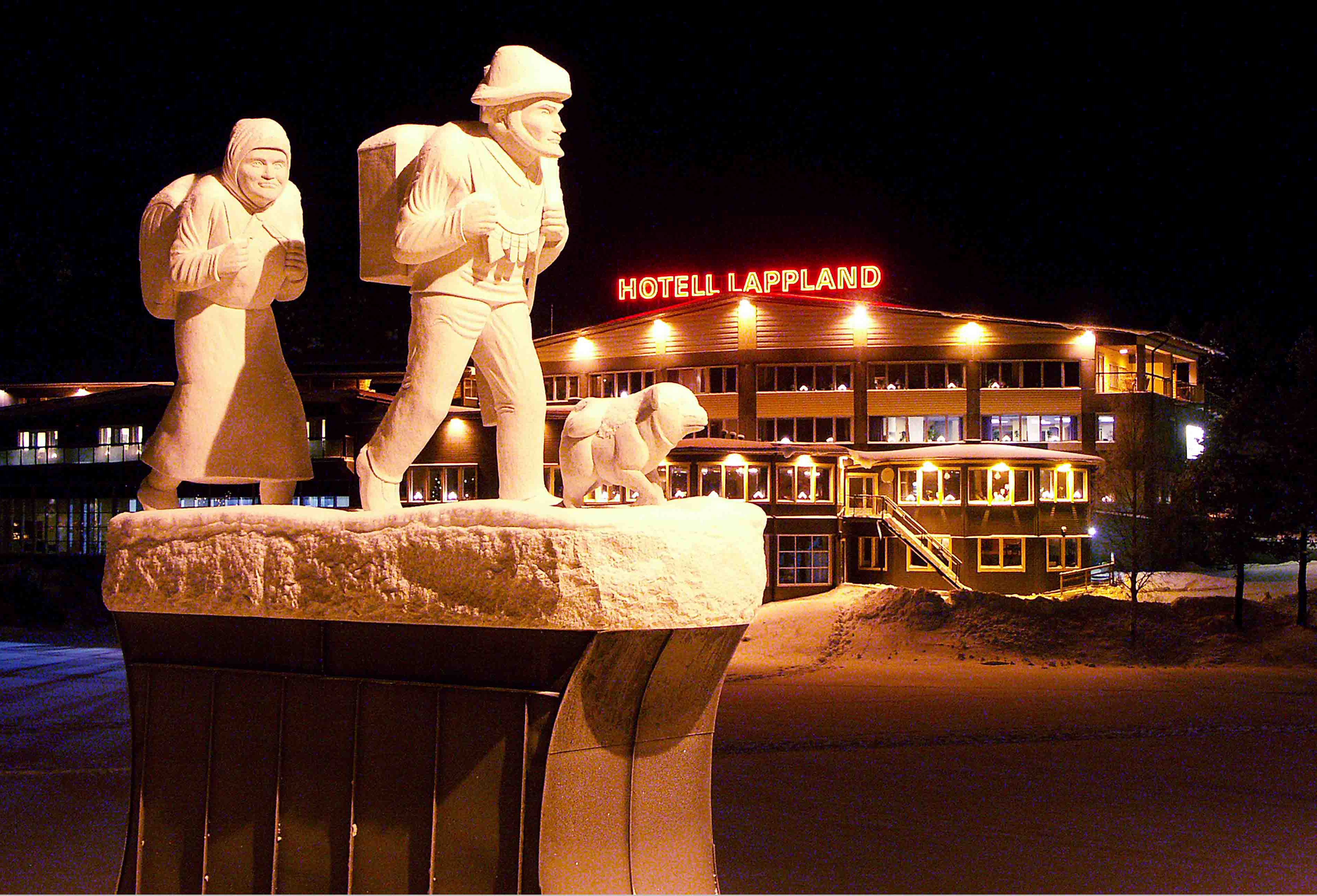 Monument over the settlers founding the town of Lycksele in Swedish Lappland.